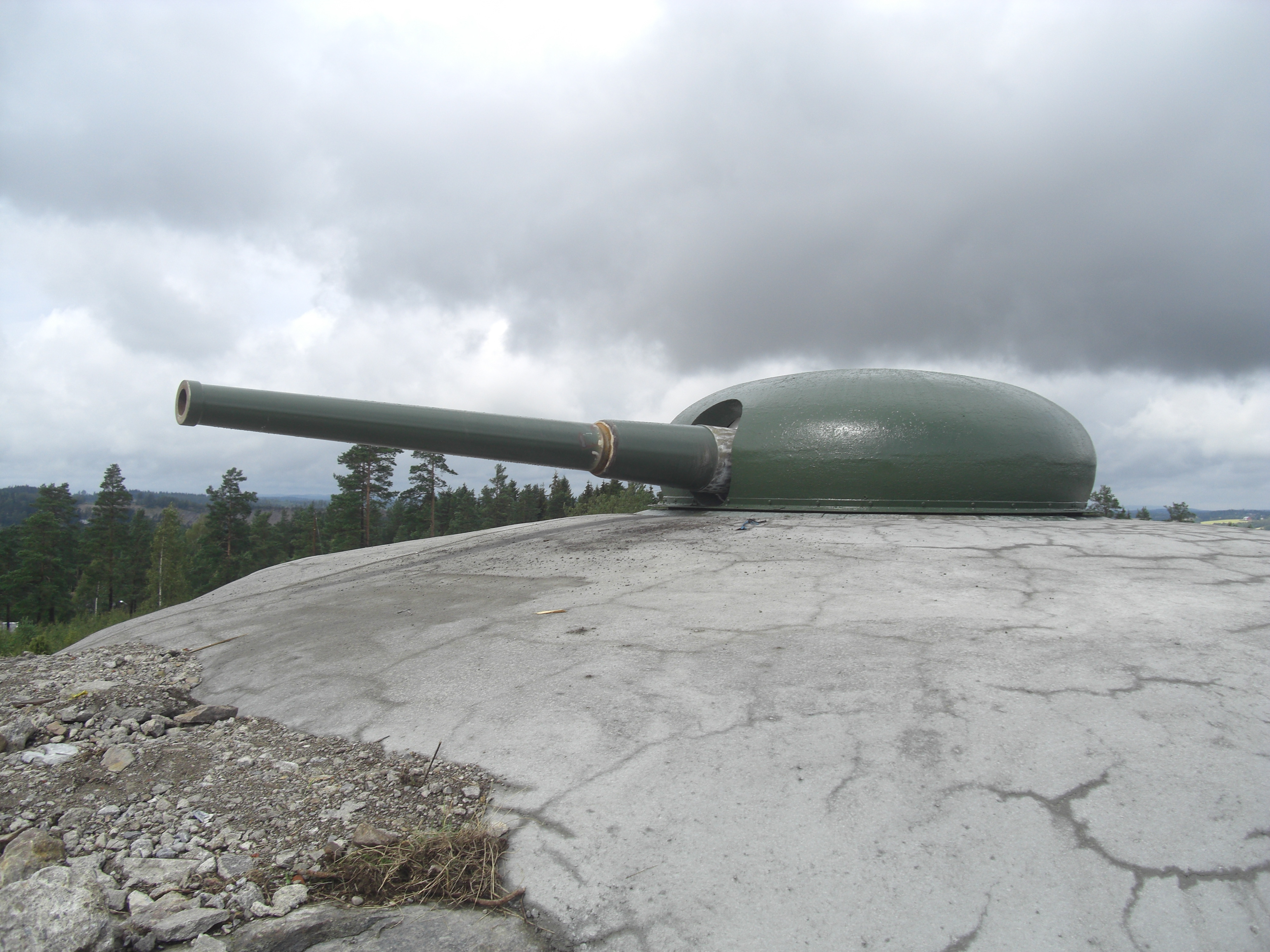 12 cm turret gun